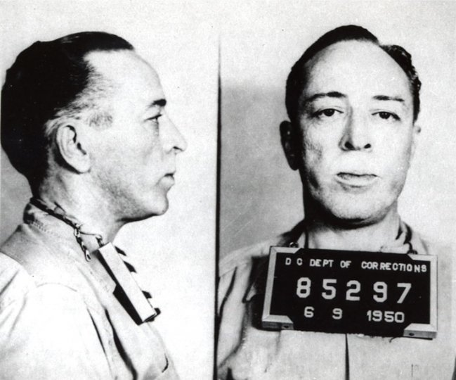 A mug shot: Dalton Trumbo, Federal Correctional Institution, Ashland, 1950-06-09